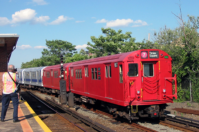 The New York Transit Museum "Train of Many Colors" is seen at Rockaway Park-Beach 116th Street. Photo by Robert McConnell.